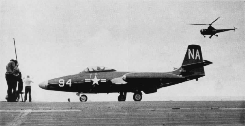 A U.S. Navy McDonnell F2H-2N Banshee night fighter from Composite Squadron VC-4 Nightcappers aboard the aircraft carrier USS Franklin D. Roosevelt (CVB-42). A detachment of VC-4 made a single deployment aboard the FDR with Carrier Air Group 6 (CVG-6) to the Mediterranean Sea from 10 January to 18 May 1951. Note the Sikorsky HO3S plane guard helicopter from Helicopter Utility Squadron HU-1 Fleet Angels in the background. The F2H-2N differed from the standard F2H-2 by having an 84 cm longer nose section housing an AN/APS-19 radar set. Only 14 F2H-2Ns were built, one (BuNo 123311) was later modified to serve as an aerodynamic prototype for the F2H-3 all-weather fighter version.